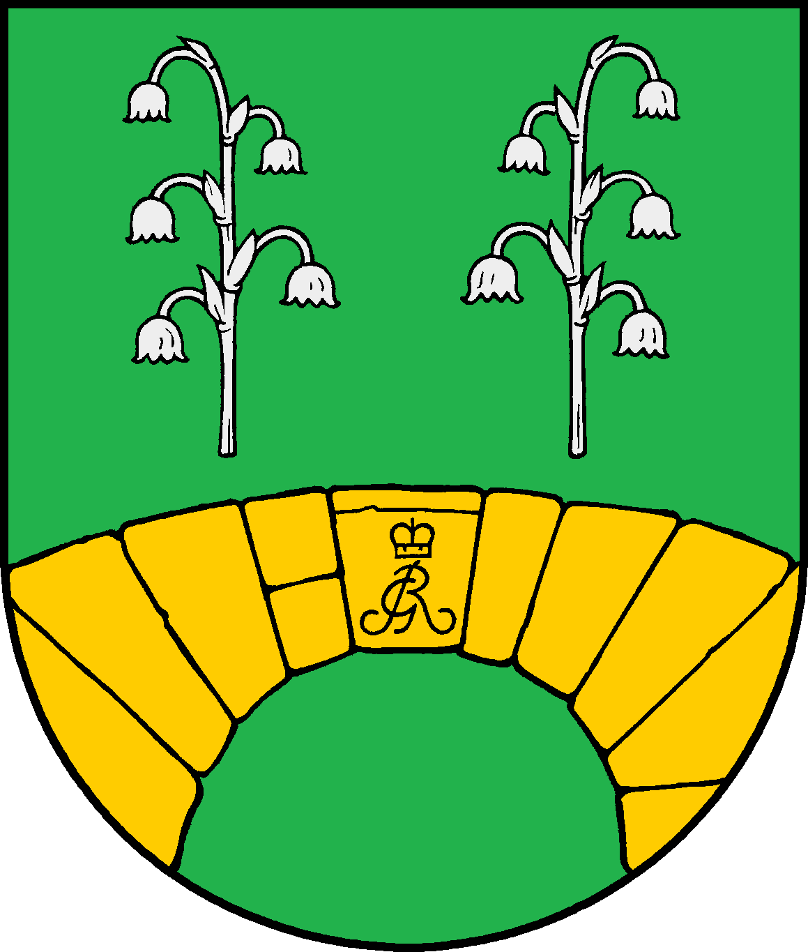 Coat of arms of the municipality Escheburg in Schleswig-Holstein, Germany.